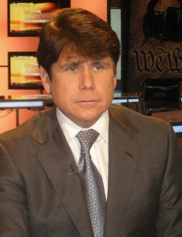 Former Gov, Rod Blagojevich on set before an interview with Greta Van Susteren for Fox Newschannel's On the Record. Photo taken by the PR firm The Publicity Agency